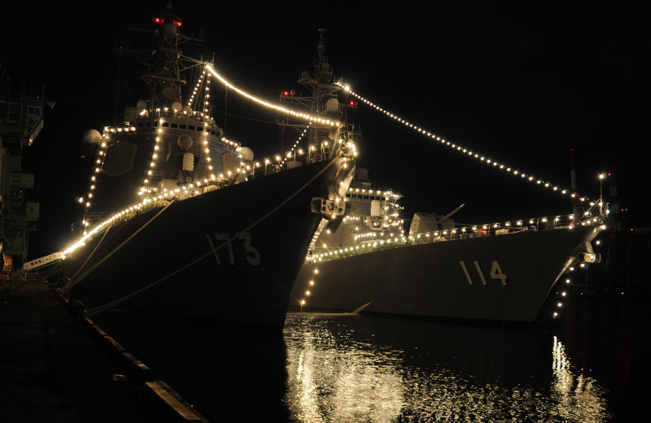 SENDAI, Japan (July 23, 2010) Japan Maritime Self-Defense Force guided-missile destroyers JS Kongo (DDG-173) and JS Suzunami (DD-114) are illuminated by friendship lights during a port visit to Sendai, Japan. Kongo and Suzunami are visiting Sendai, along with the guided-missile destroyer USS Russell (DDG 59) as part of the 50th Anniversary Commemoration of the United States-Japan Mutual Treaty of Cooperation and Security. (U.S. Navy photo by Mass Communication Specialist 3rd Class Dominique Pineiro/Released)